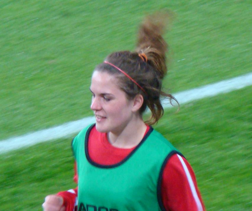 FC Twente player Siri Worm